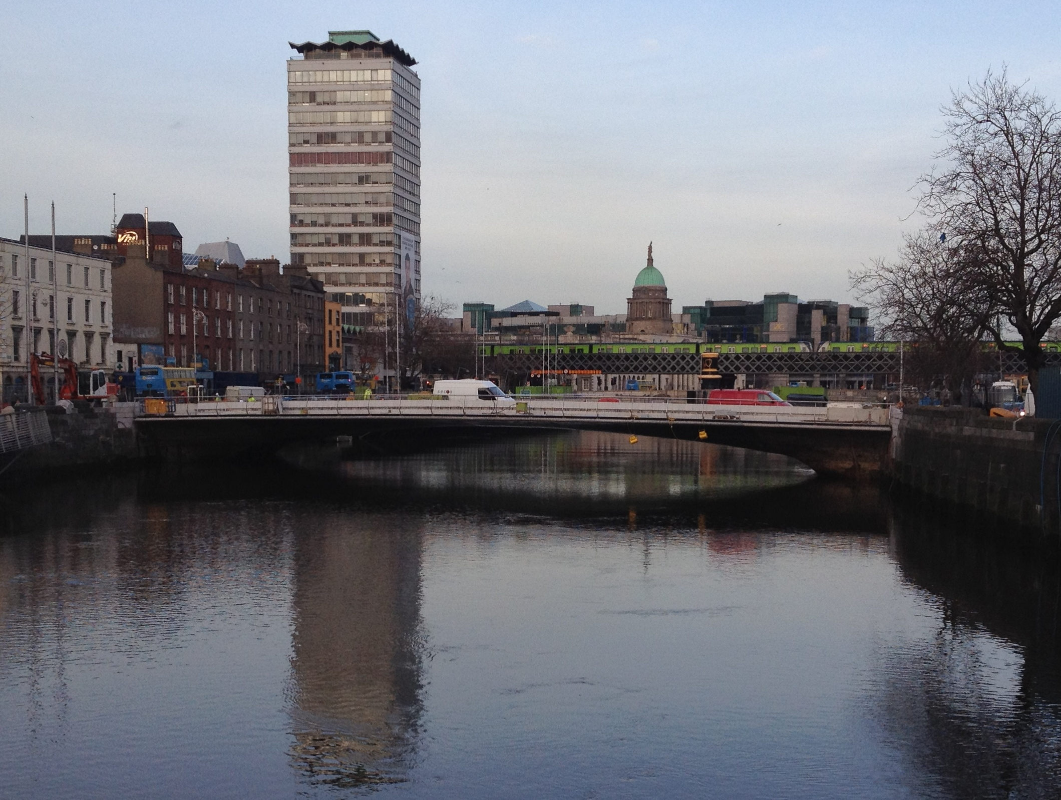 Rosie Hackett Bridge over the River Liffey in Dublin, Ireland. As seen looking downstream from O'Connell Bridge. Taken during bridge construction in March 2014.